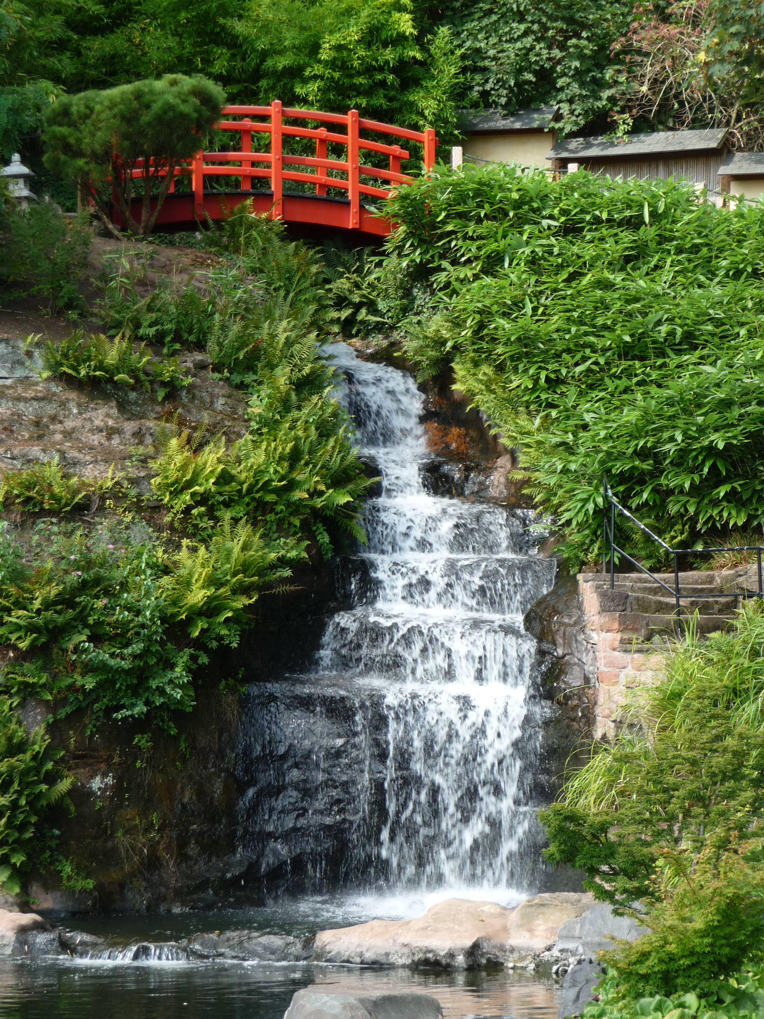 Water in Japanese garden, Kaiserslautern